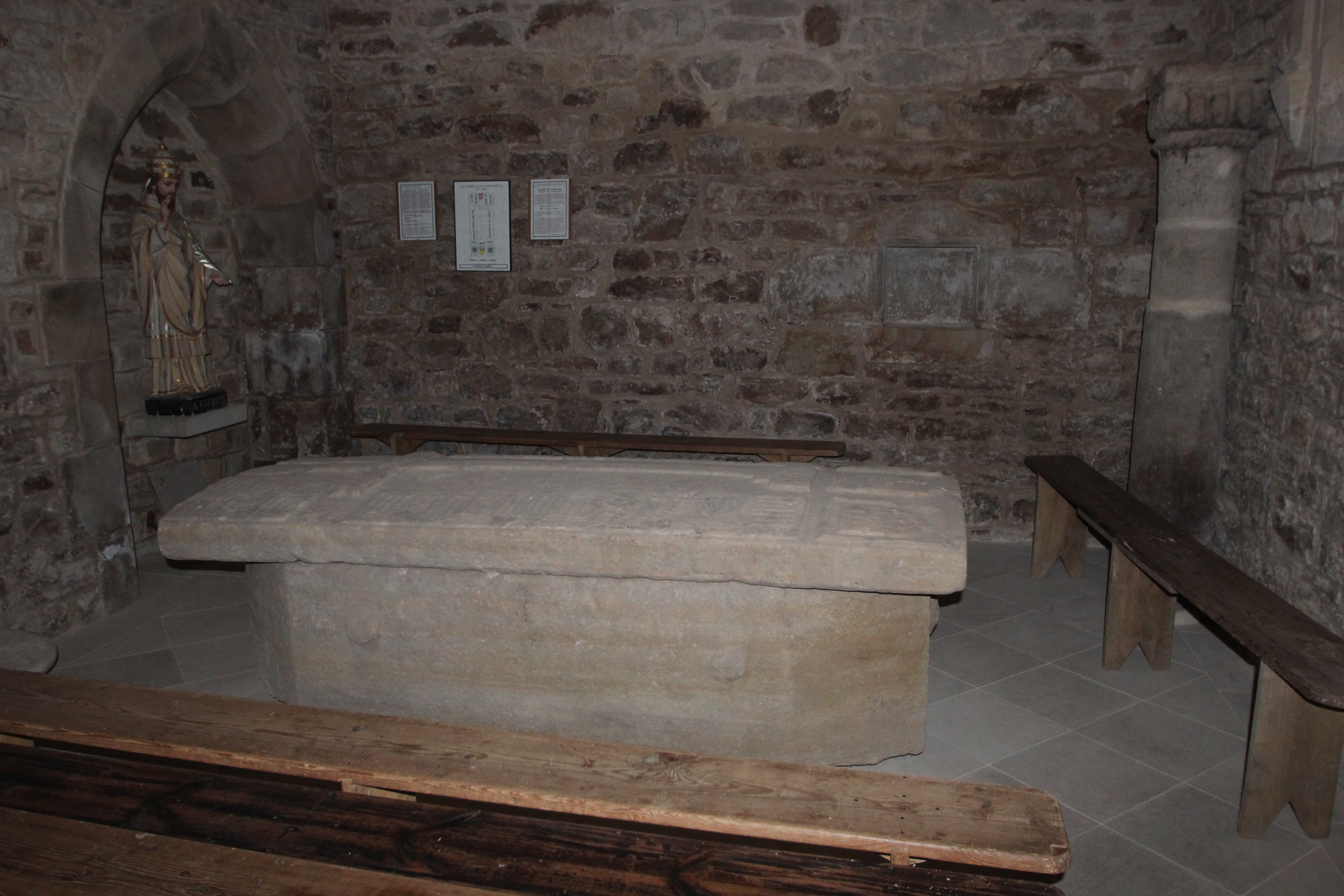 Notre-Dame-de-Septembre church in Martrin, France. Tomb of the commander Penavayra de Salicio. Object location43° 56′ 18.96″ N, 2° 37′ 08.76″ E .